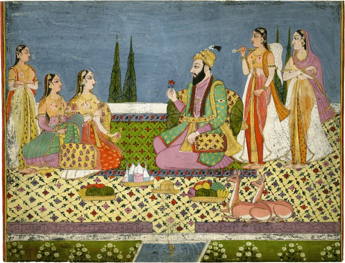 Abdullah Qutb Sháh on a Terrace with Attendants Golconda, Deccan School, late 18th c.